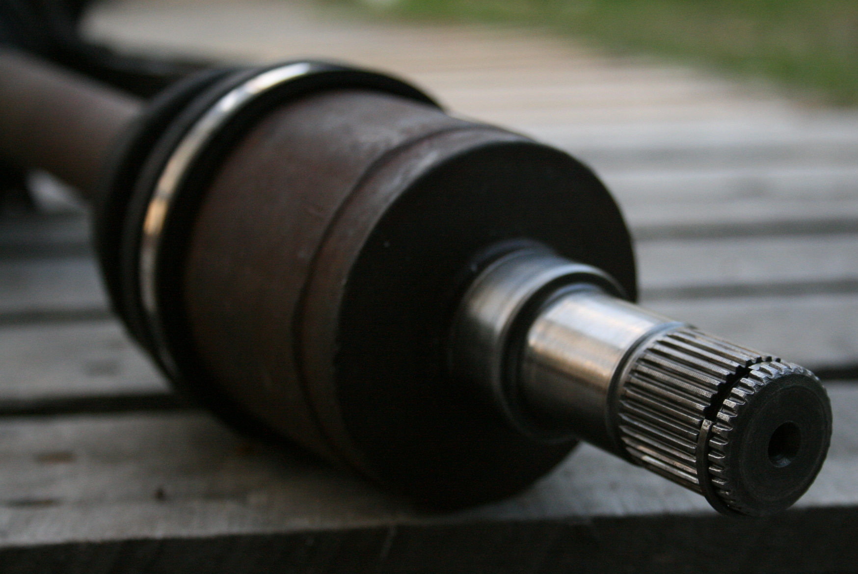 Splines on the end of an axle shaft from a 1990 Geo Storm GSi.